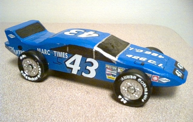 Pinewood Derby Car 2004 by Arthur/Henry Hu Kirkland WA